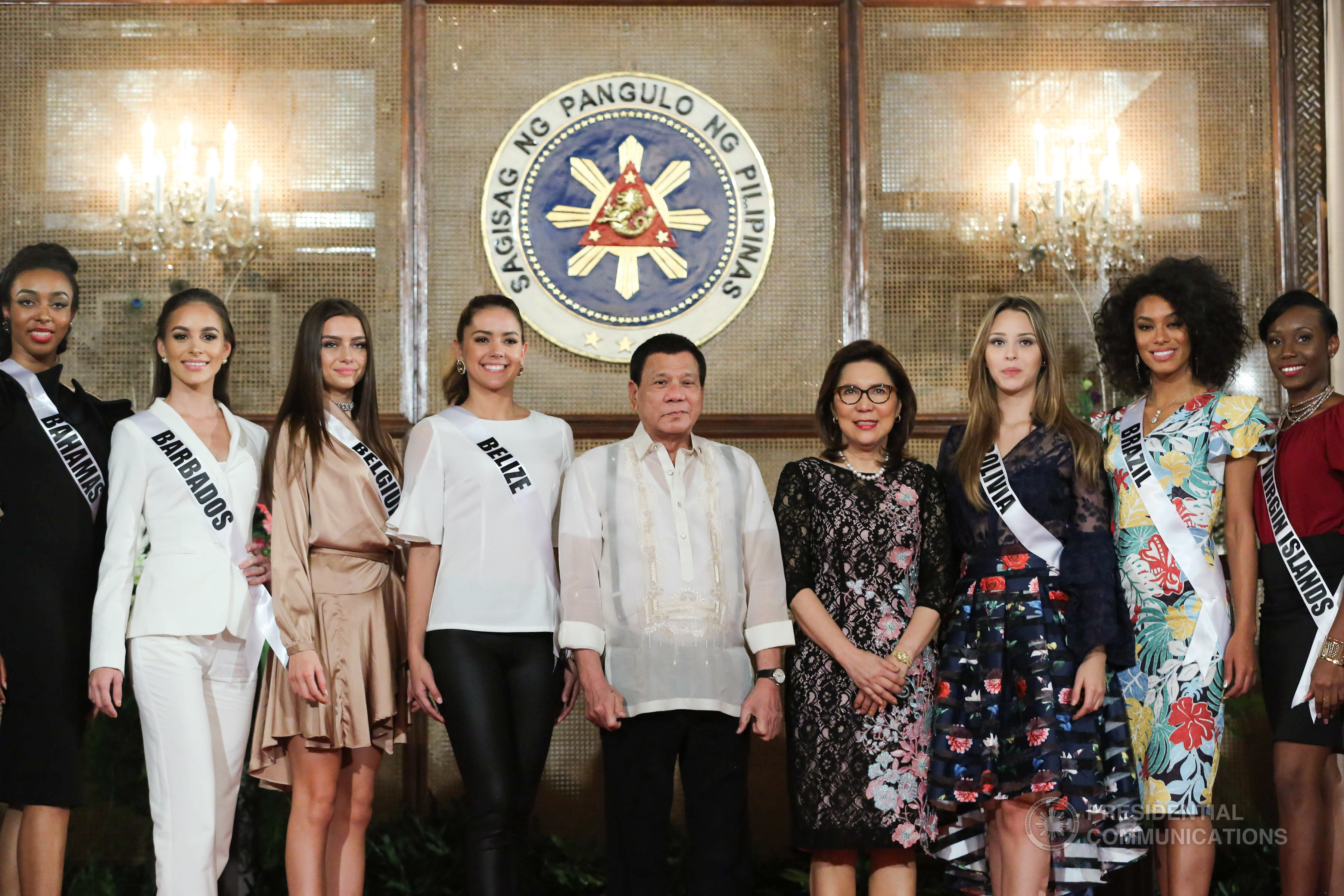 President Rodrigo Roa Duterte and Tourism Secretary Wanda Teo are flanked by candidates of the 65th Miss Universe during a photo session at the Rizal Hall in Malacañan Palace on January 23, 2017. ALBERT ALCAIN/Presidential Photo